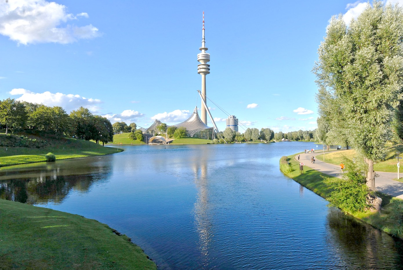 Munich, olympic Park: olympic sea